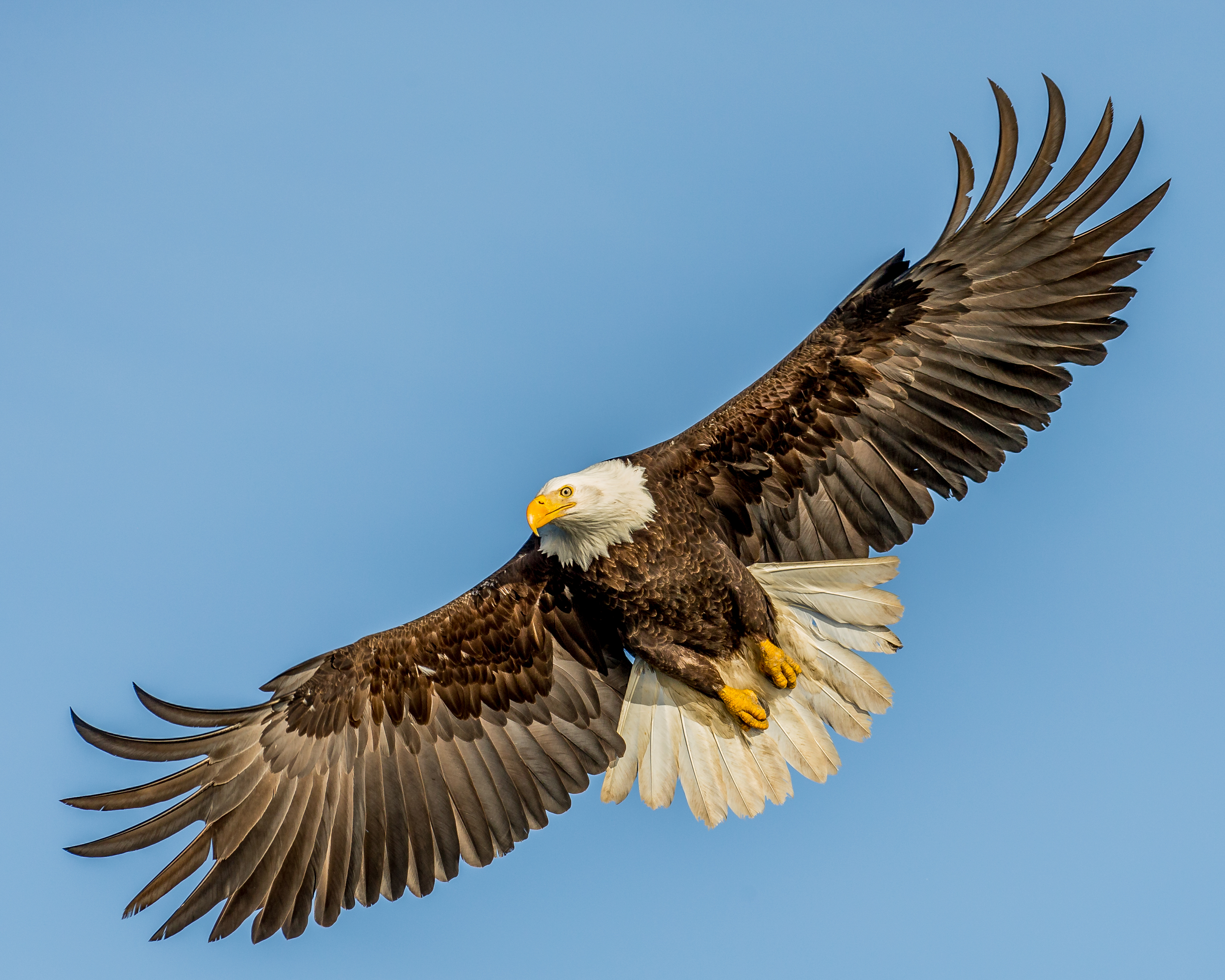 I have just finished a tour in Homer, Alaska, led by Chris Dodds. Chris said the aim was to get each of the attendees a portfolio of bald eagle images - and boy did he deliver!!! I had so many great photo opportunities. Thanks Chris. See Chris's site below.